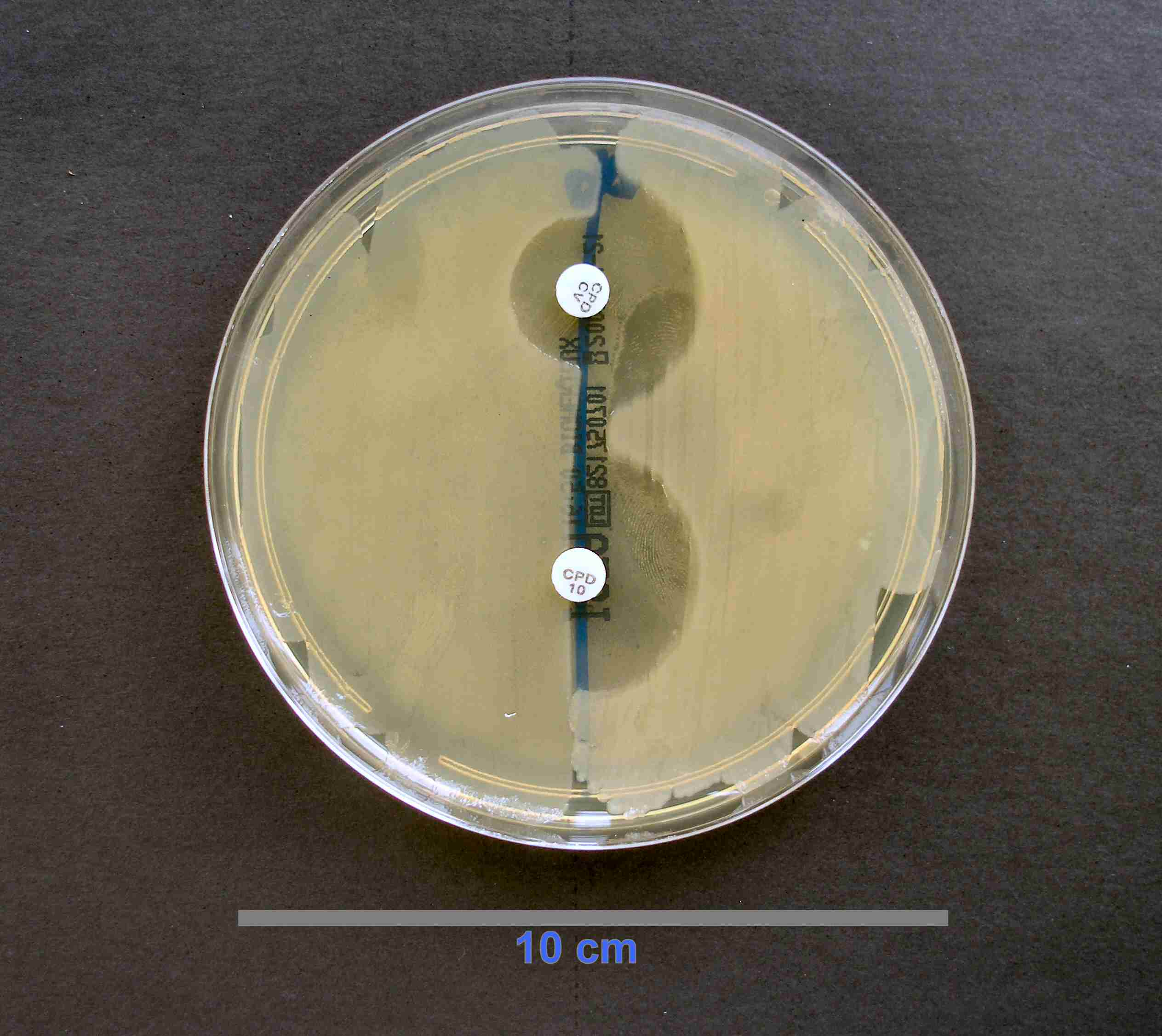 Culture of ESBL-producing Escherichia coli